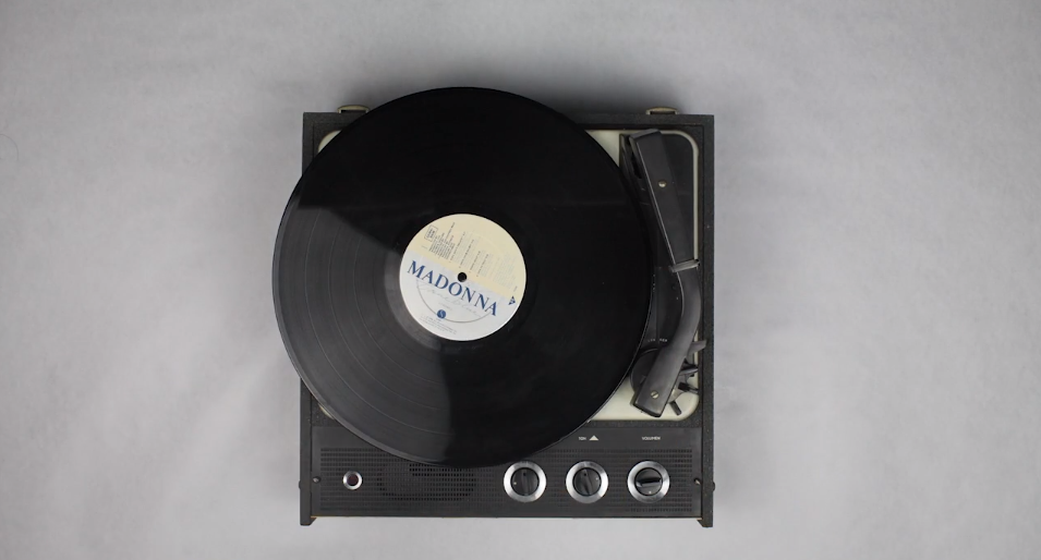 A vinyl cover of Madonna's album True Blue.